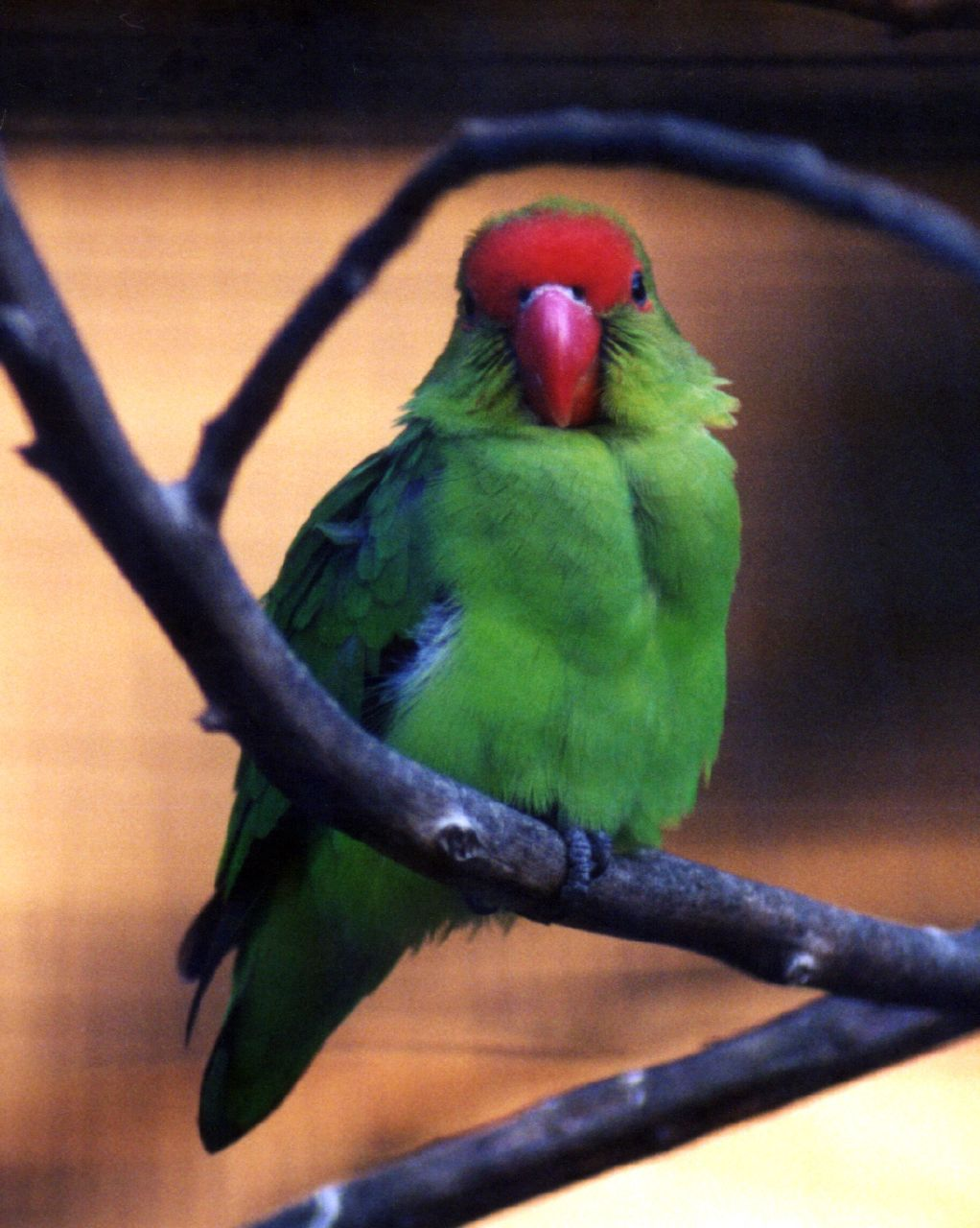 Agapornis taranta - Black-winged Lovebird in the San Diego Wild Animal Park, California